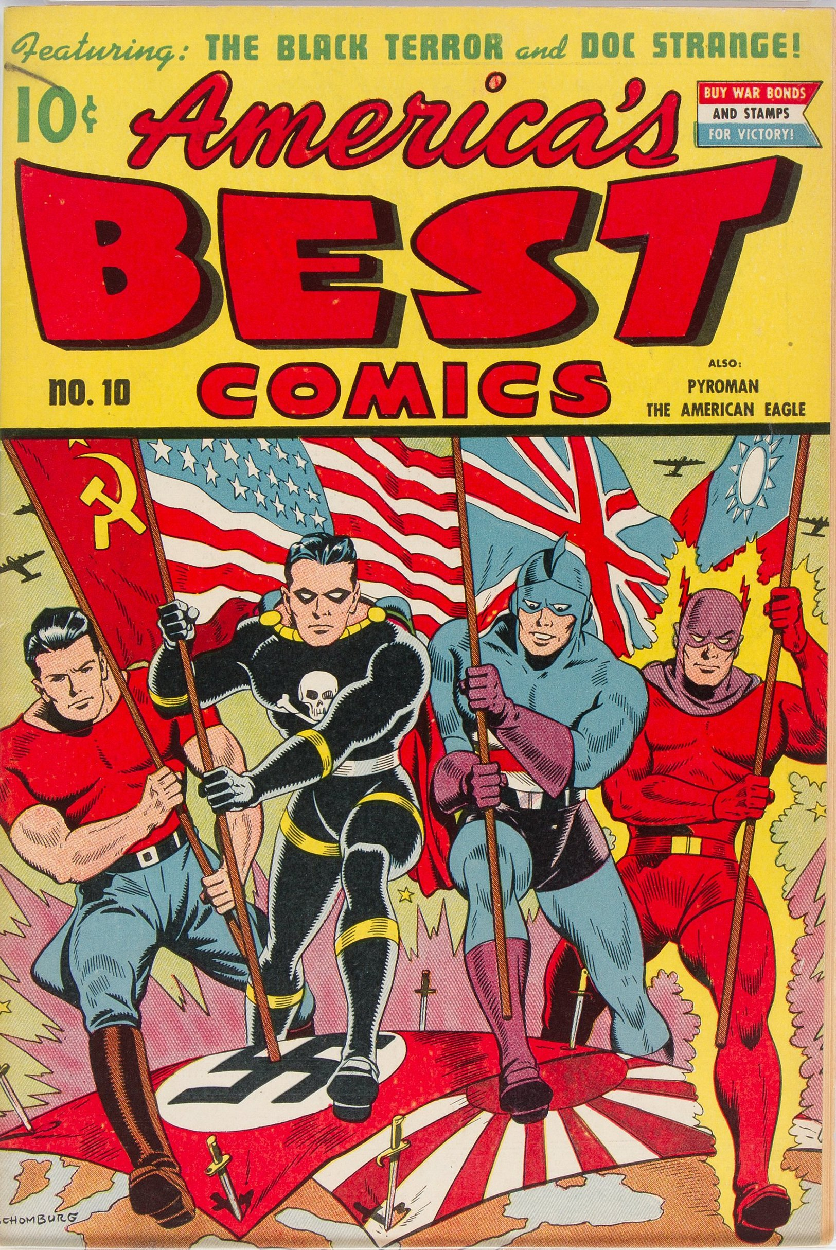 Doc Strange, Black Terror, American Eagle and Pyroman on the over of America's Best Comics #10, July 1944